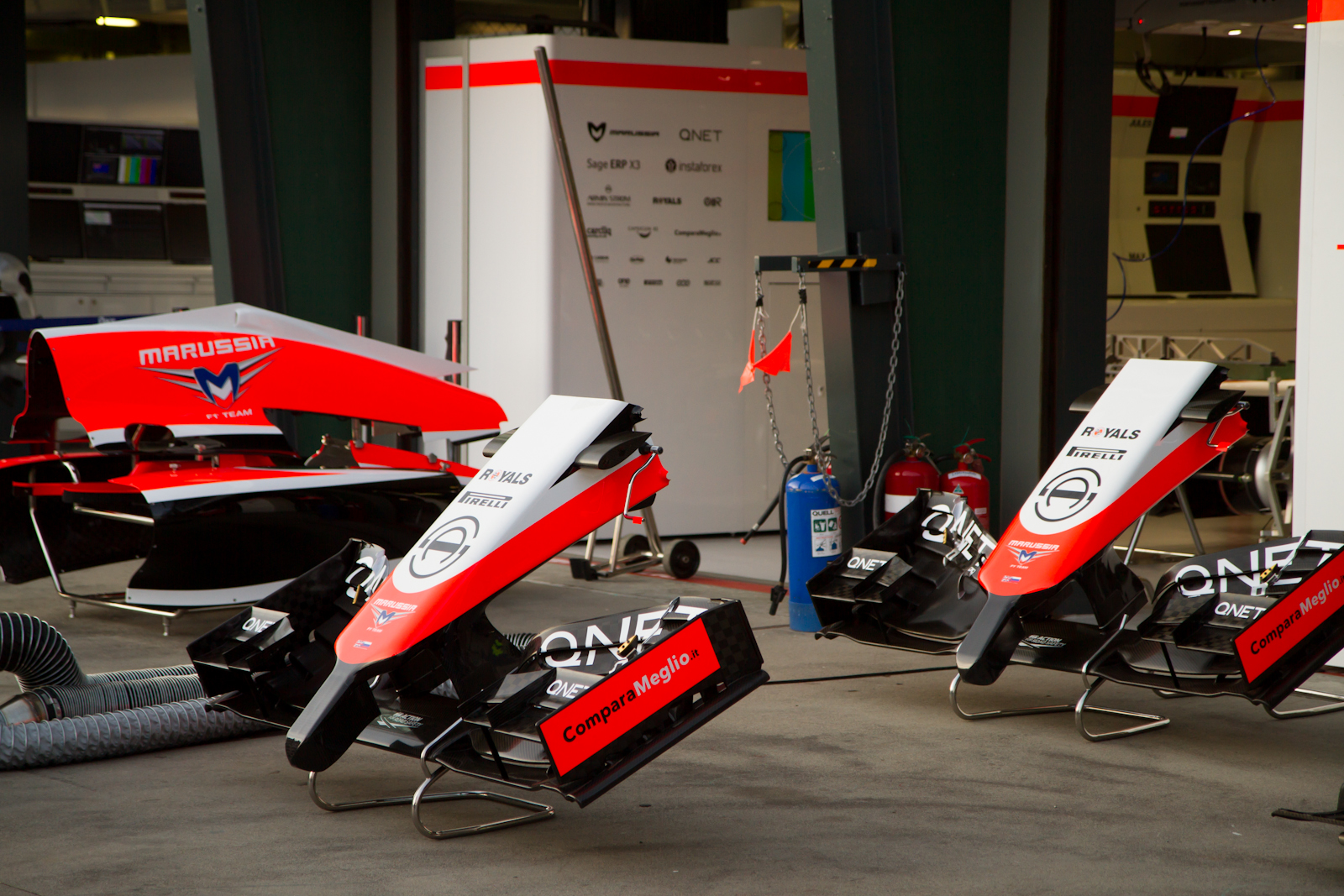 2014 Australian F1 Grand Prix